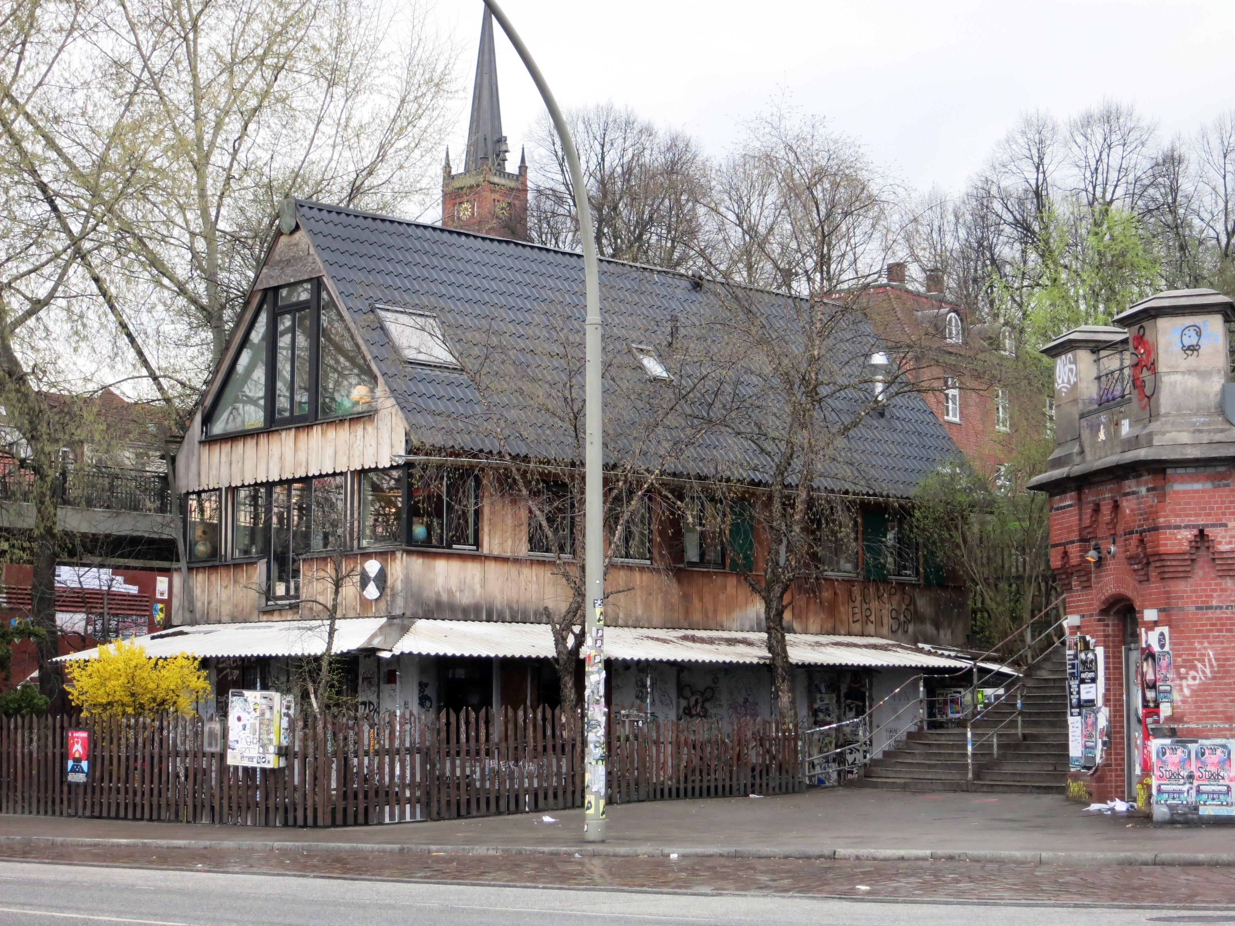 Golden Pudel Club, 2014 Building “Am St. Pauli Fischmarkt 27”, Hamburg